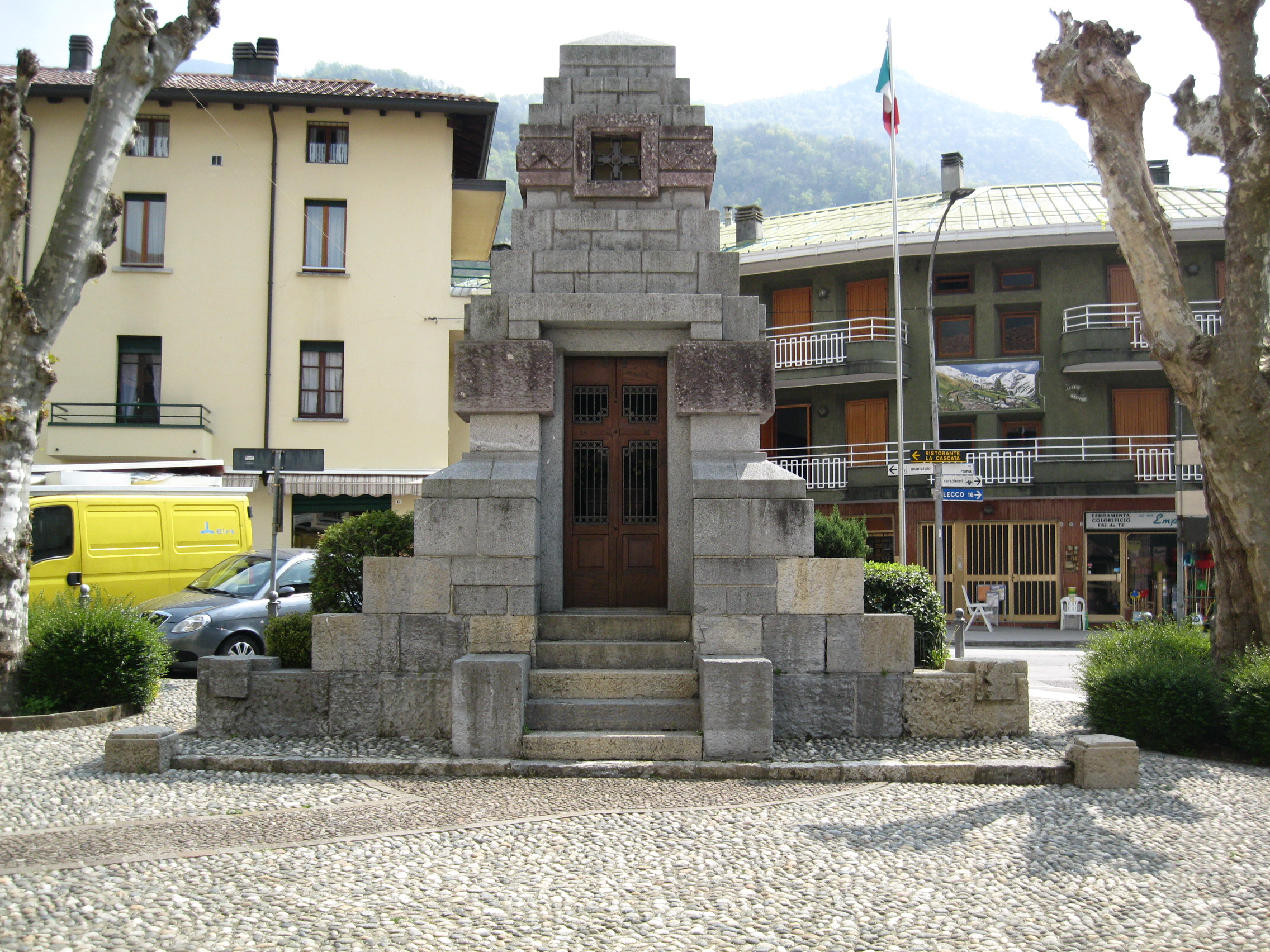 monument dedicated to the deeds from the first and second world war in Introbio, a small town in Lombardy, Italy